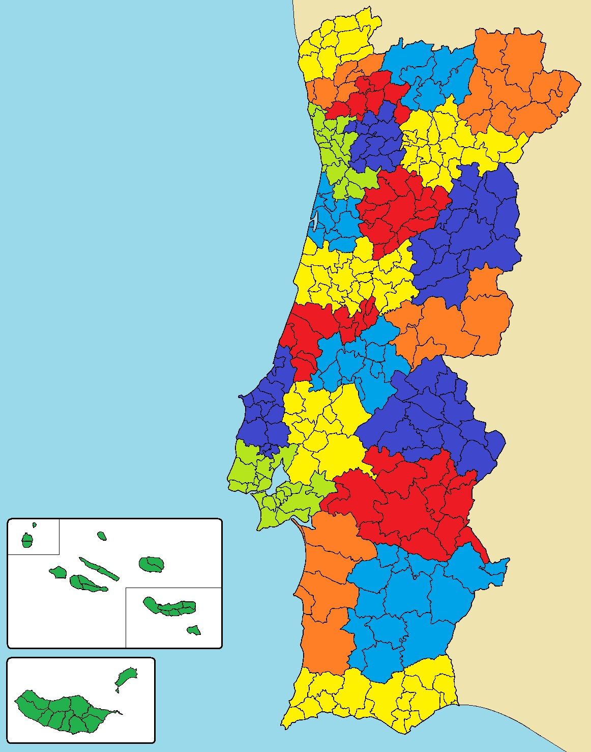 Metropolitan Areas (light green), Intermunicipal Communities and Overseas Regions (dark green)